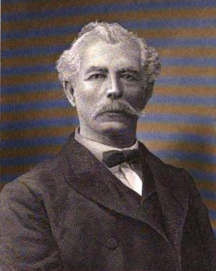 A frontispiece of Congressman John M. Pinckney published in 1906 by the United States Government Printing Office.